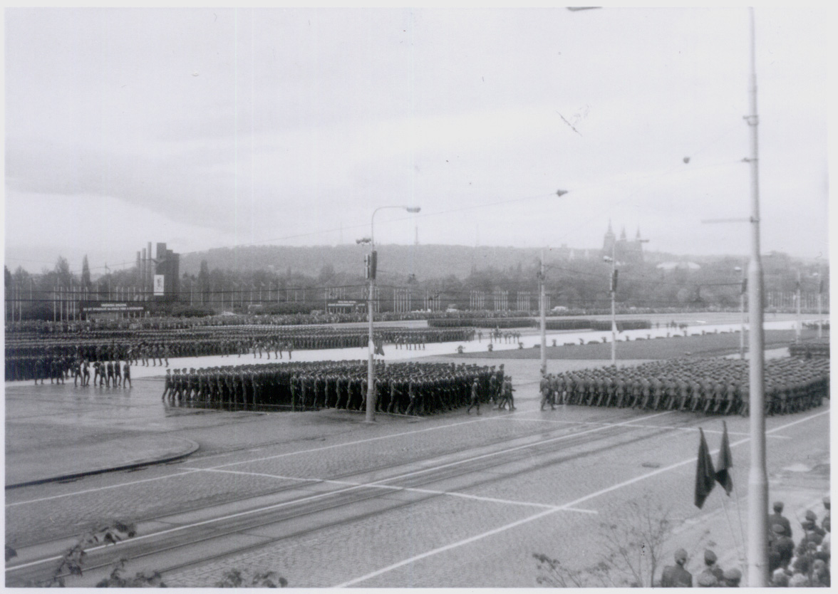 Czechoslovak military parade in Prague, 9th of May, 1985.